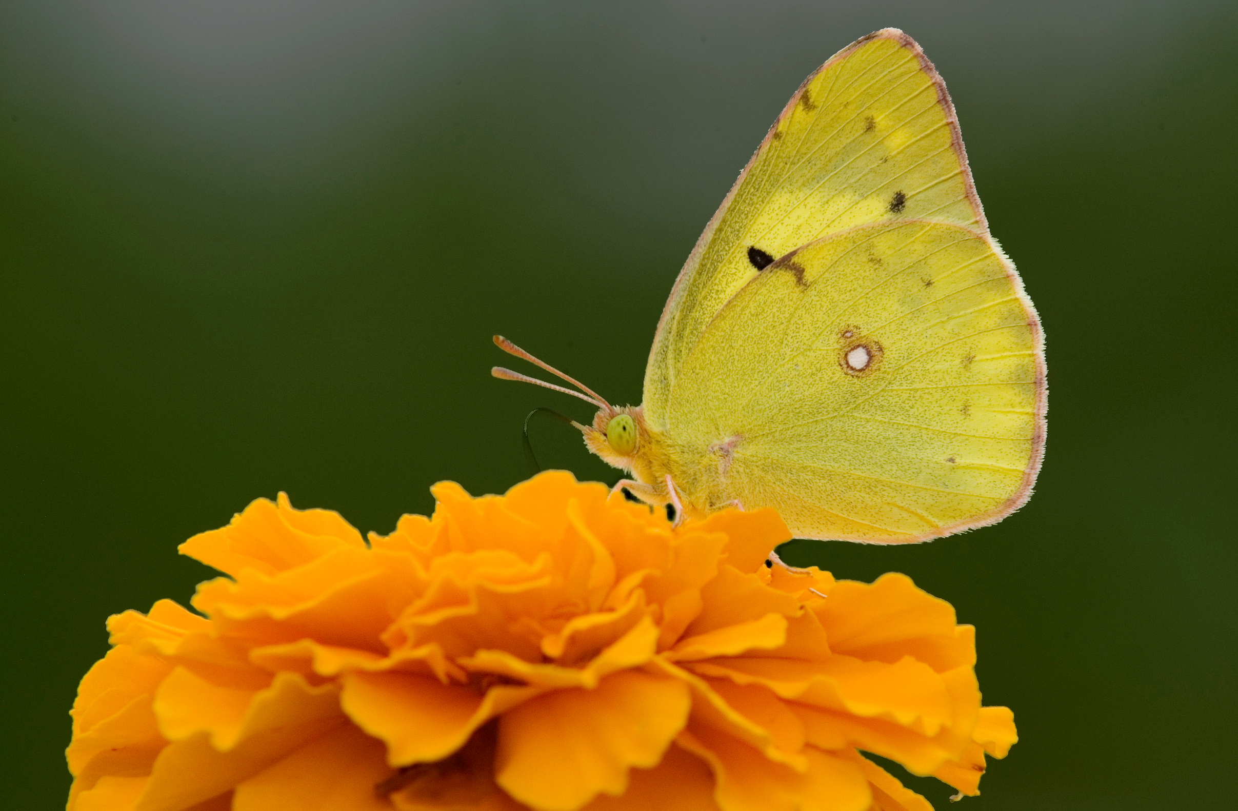 Eastern Pale Clouded Yellow